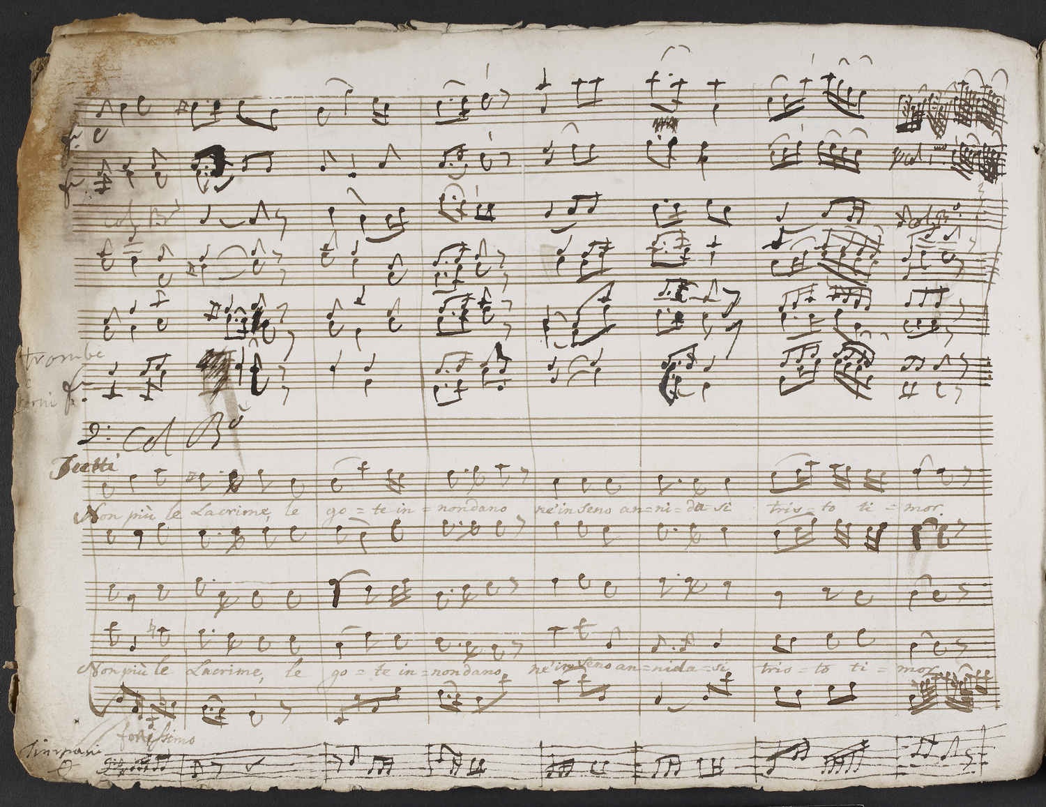 Jefte in Mafsa. Partly in the composer's hand.